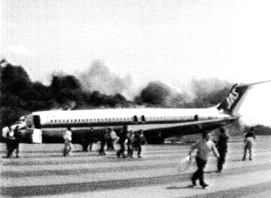 Flight 451 was caught by windshear before touchdown on runway 02. And the aircraft landed hard.